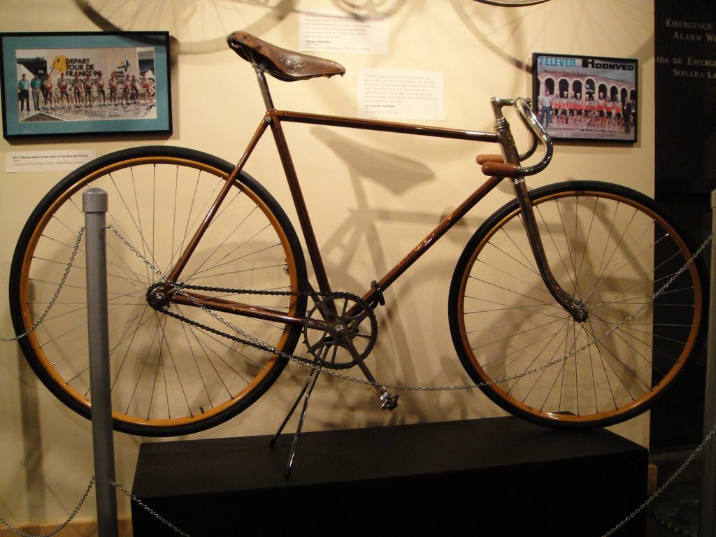 Iver Johnson started as an American arms manufacturer. In addition to guns, the company would also make bicycles and motorcycles. This bike was raced in the 1928 Amsterdam Olympics. The frame is lugless and has a seat cluster that would later be called "fastback". The down tube has "Special Racer" printed on it.